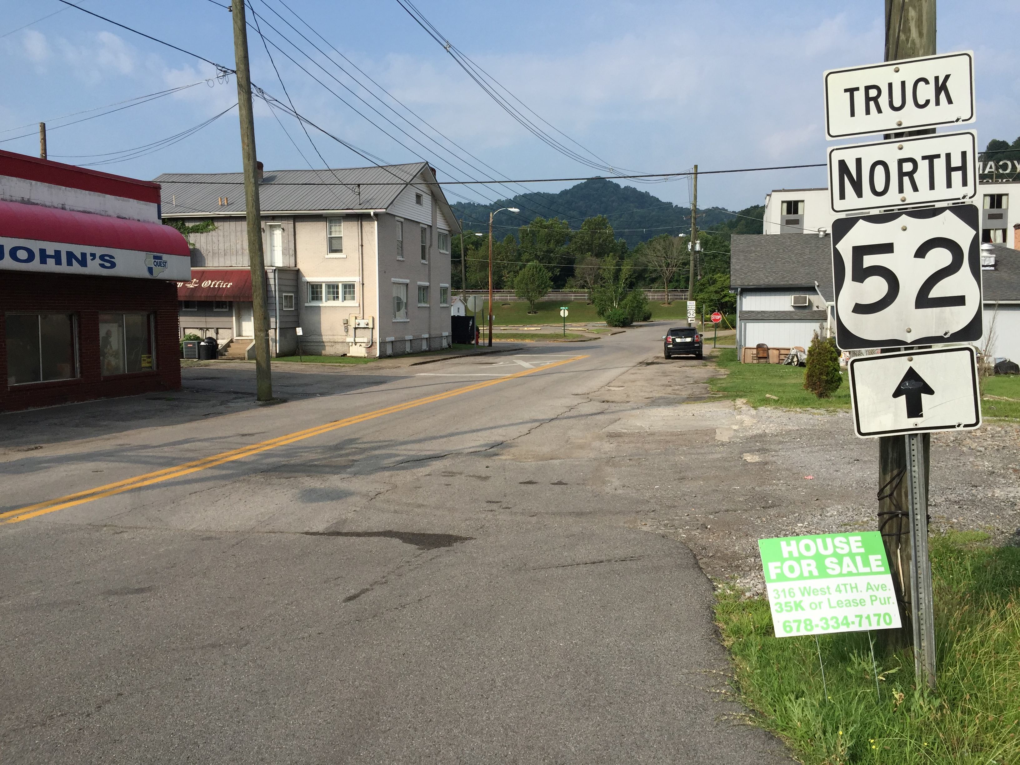 View north along U.S. Route 52 Truck (Prichard Street) at 3rd Avenue in Williamson, Mingo County, West Virginia